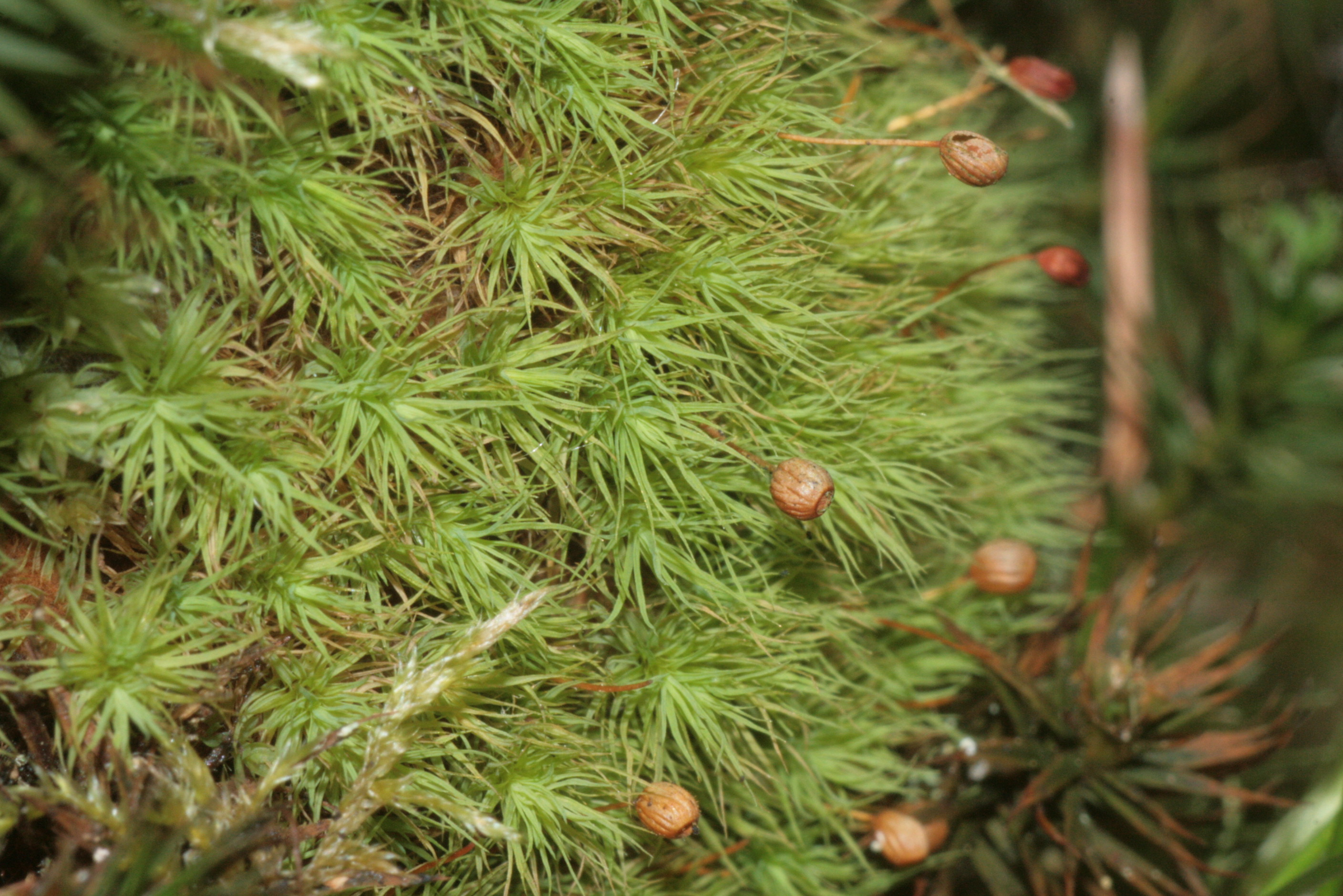 Bartramia pomiformis